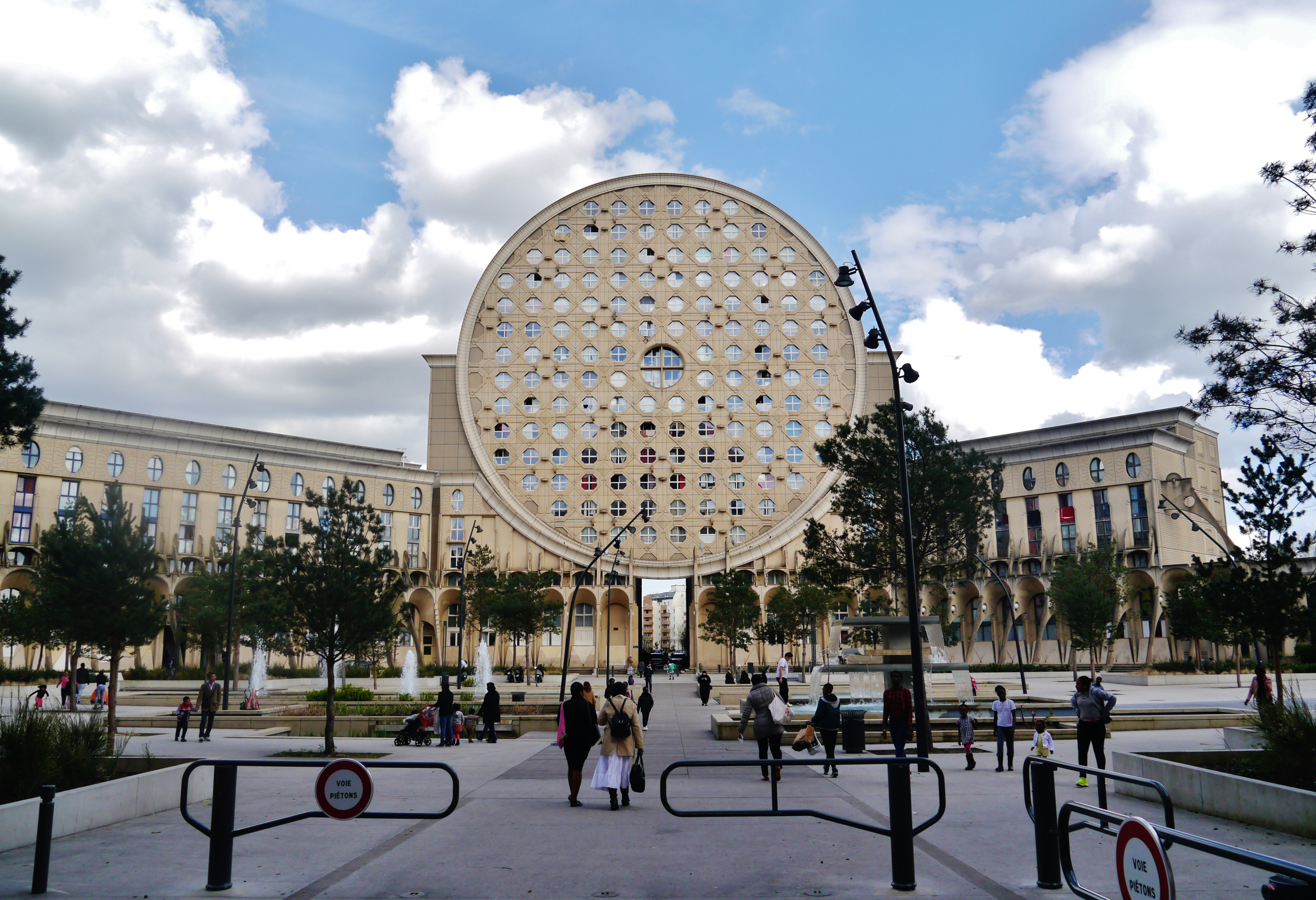 Arènes de Picasso: Pablo Picasso Square, Noisy-le-Grand, Département of Seine-Saint-Denis, Region of Île-de-France, France